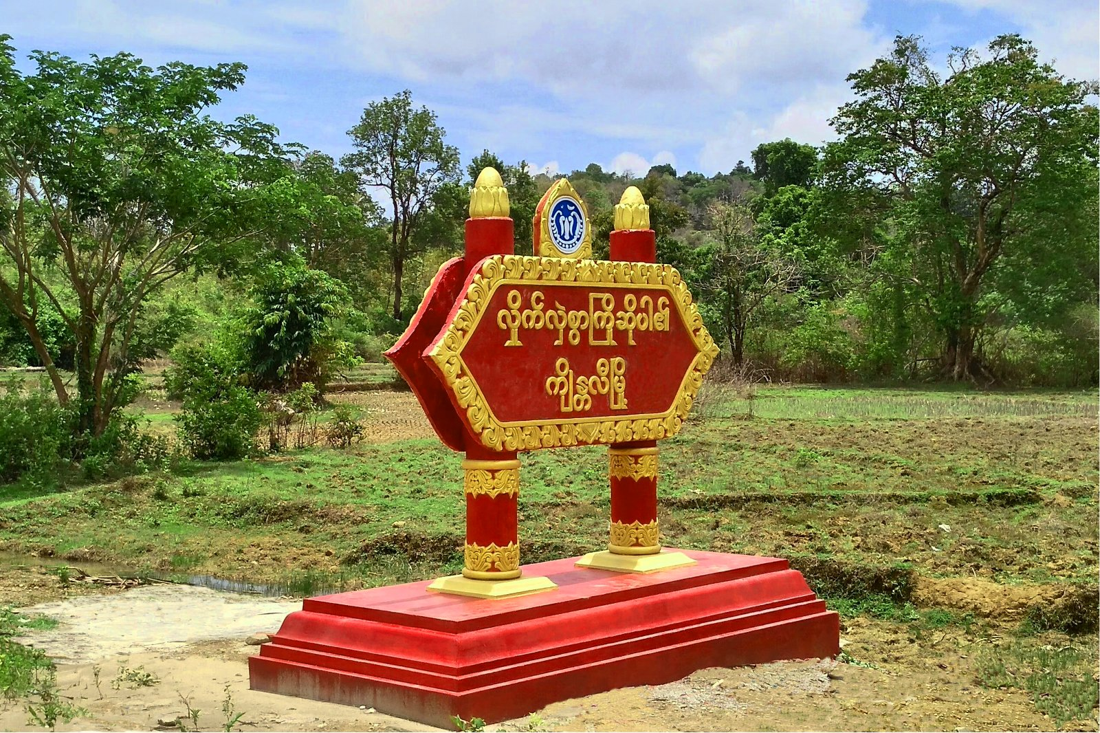 The banner that you can see at the right side of the road when you come to Kyeintali from Yangon.